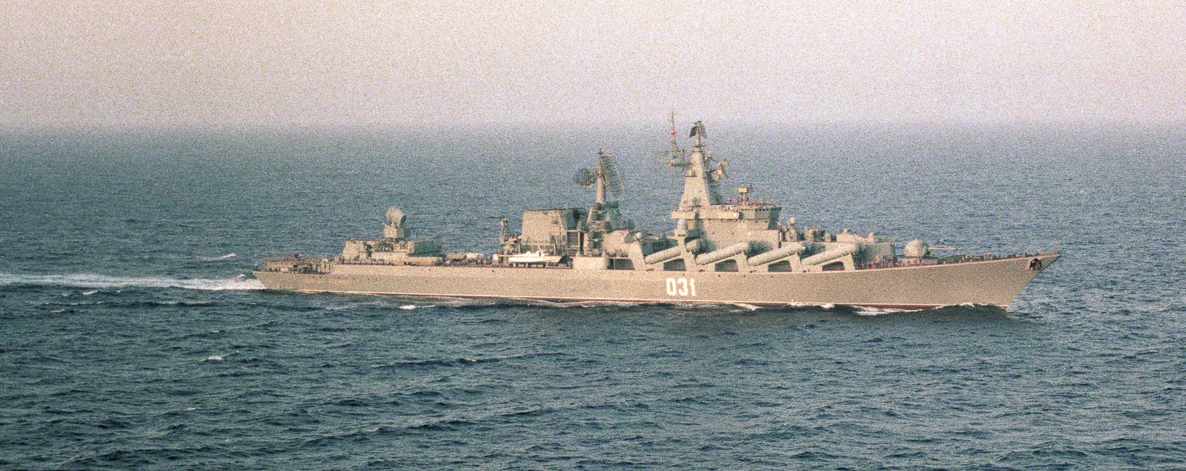 A starboard beam view of the Soviet Slava class guided missile cruiser CHERVONA UKRAINA underway.